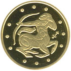 Coin of Ukraine